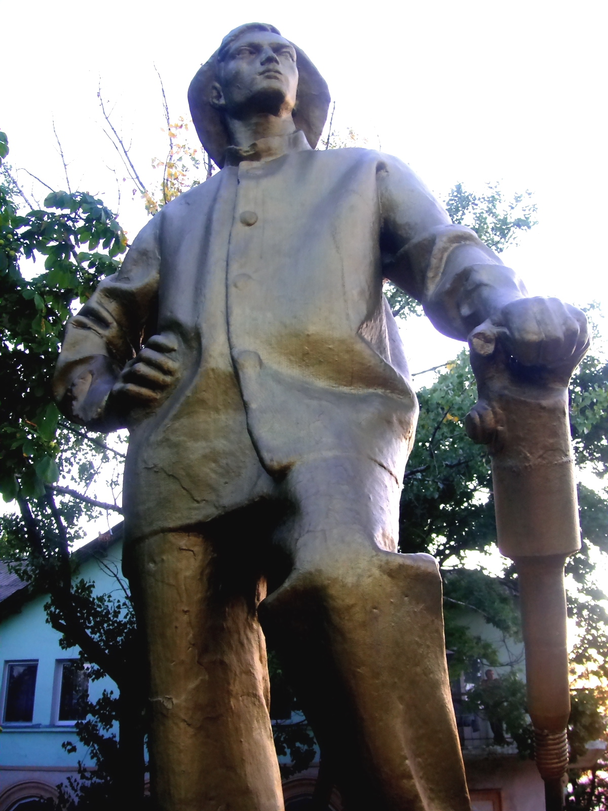 The bronze miner